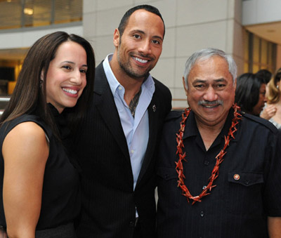 Dwayne Johnson with his wife and Congressman Eni Faleomavaega